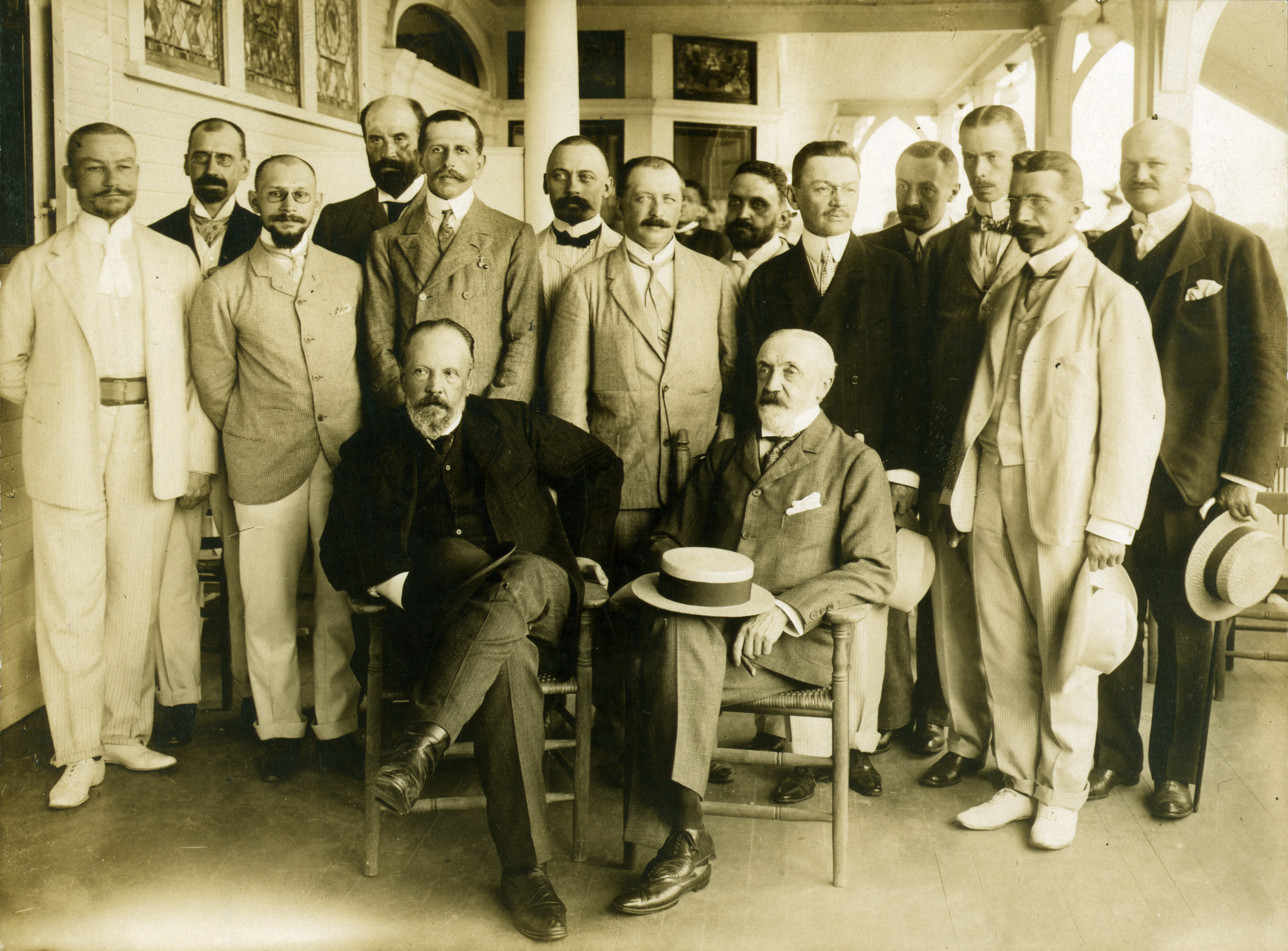 Baron Roman Rosen (right) and Count Sergei Witte (left) seated in front of a group of Russian staff members (Secretary Korostovetz, Plancon, Shipov, and Prince Kudashev among others) at Portsmouth, N.H.